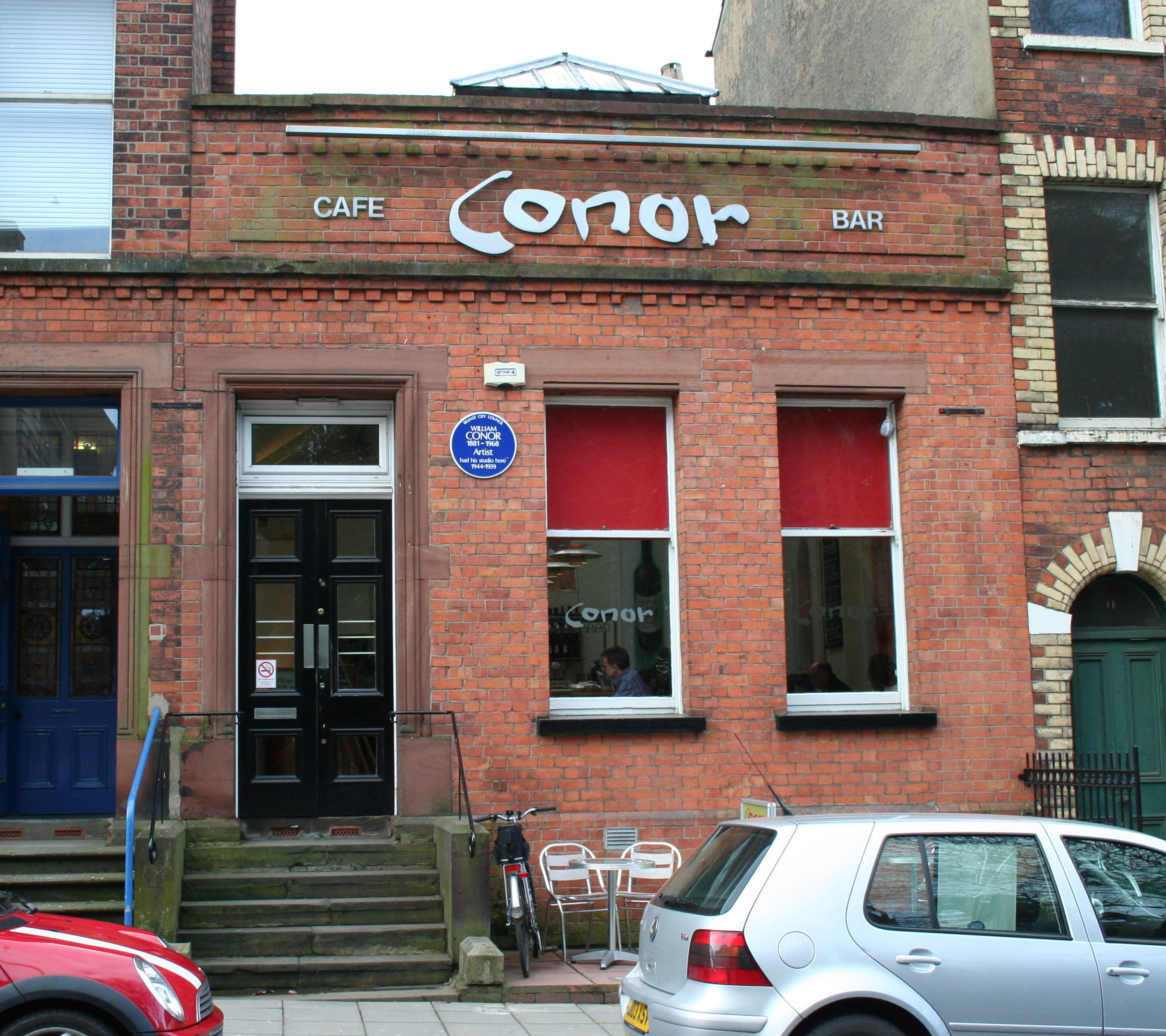 Conor cafe and bar - former studio of the artist